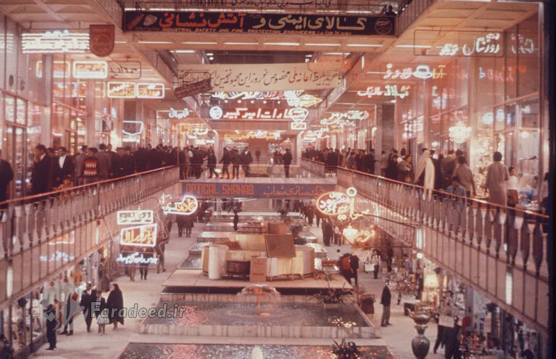 Plasco tower in 1970's